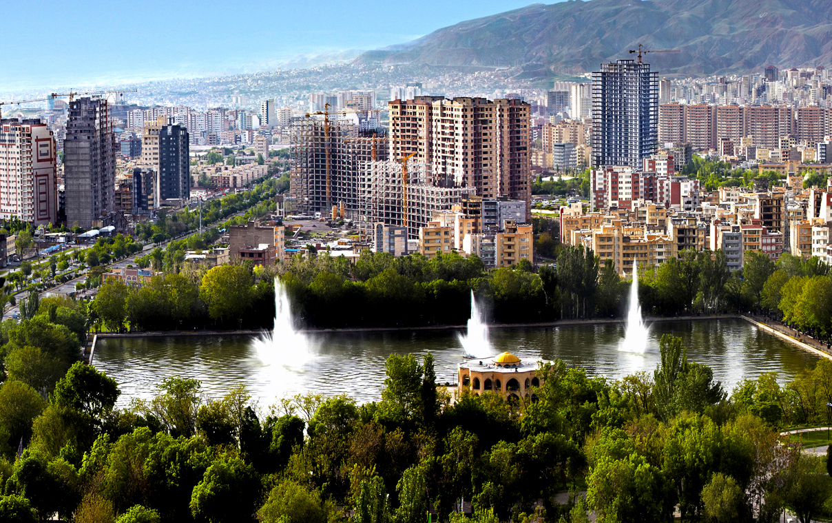 Tabriz Towers View